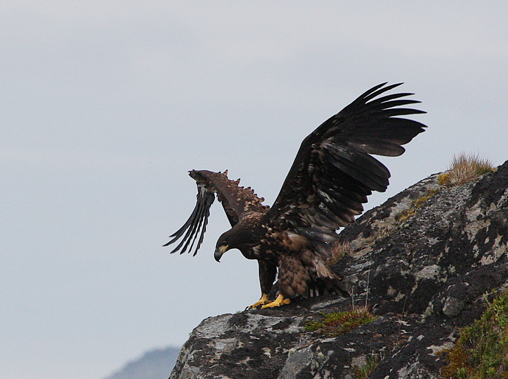 A juvenile White-tailed Eagle above its nest on Litløya, Norway.